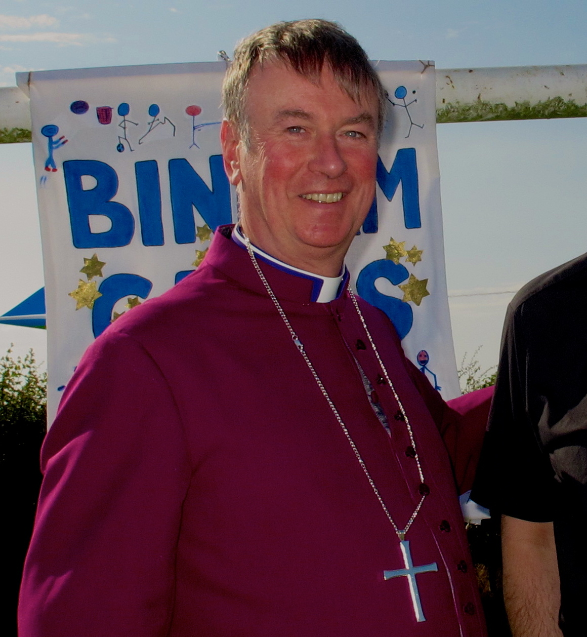 Jonathan Meyrick, Bishop of Lynn, & the Rural Dean